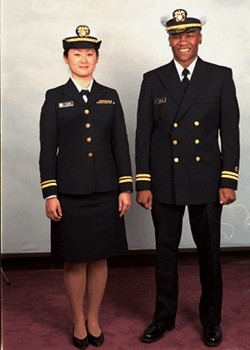 Service dress blue uniforms of the Public Health Service Commissioned Corps. This image came from the official U.S. government website of the Public Health Service Commissioned Corps. Larger version from archived page (direct image URL [1]).